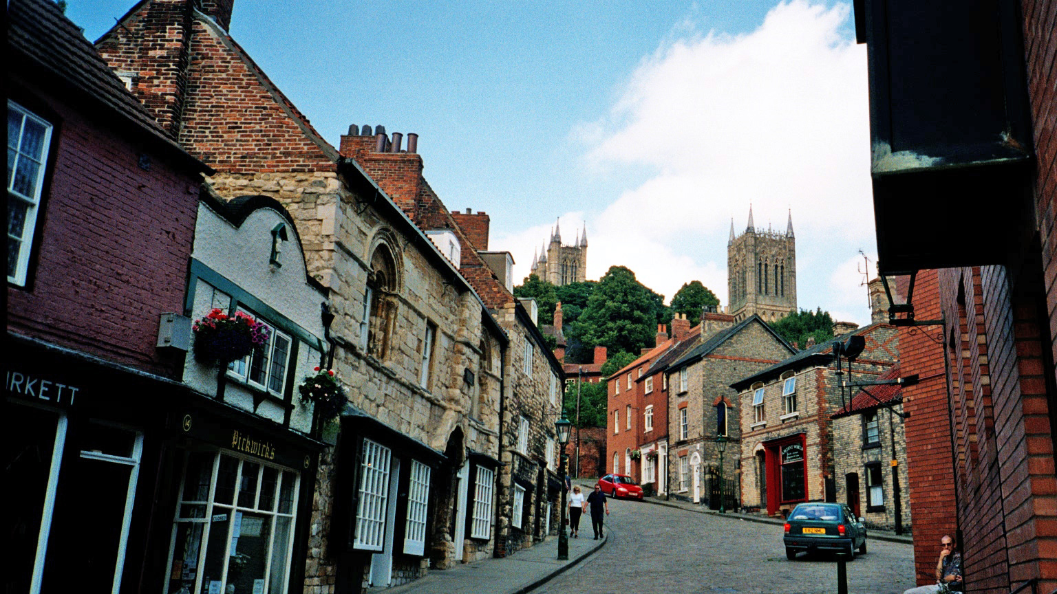 Uploaded from Creative Commons section under an Attribution License. By Russell J. Smith.